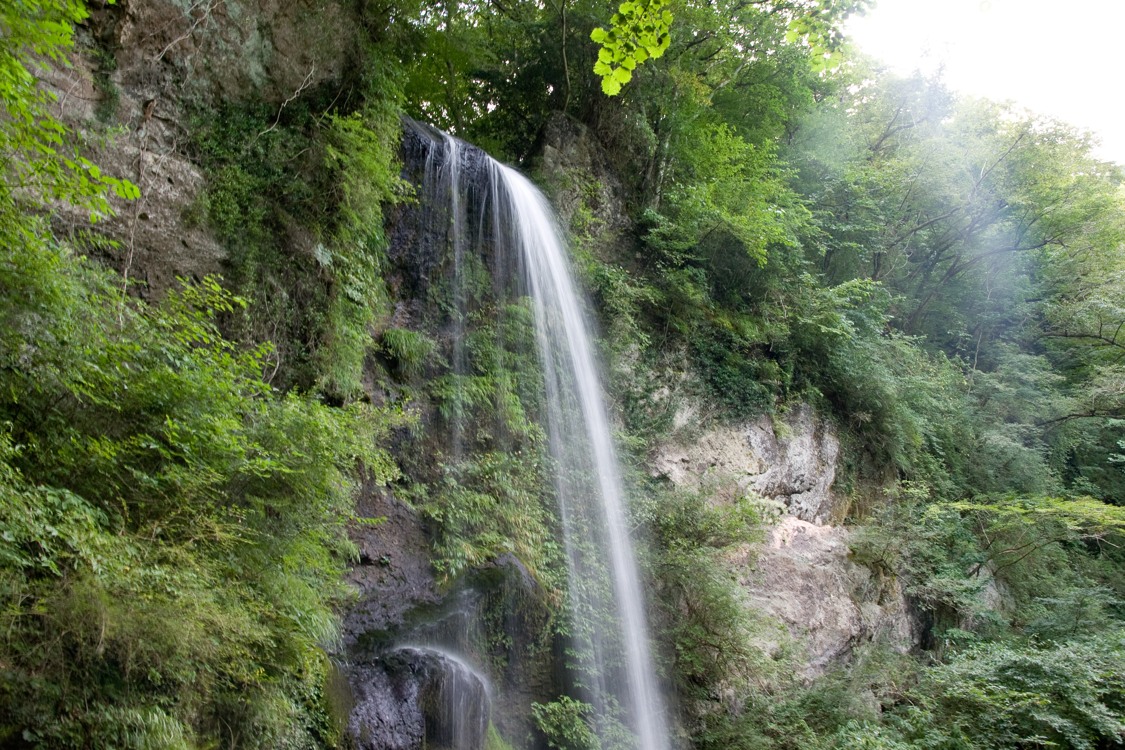 Yuhi Falls in Minamiashigara City, Kanagawa Pref, Honshu, Japan.